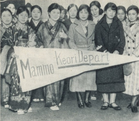 Japanese Manmou Keori Department staffs. It was taken in 1932 when these staffs are going to the department from Japan.